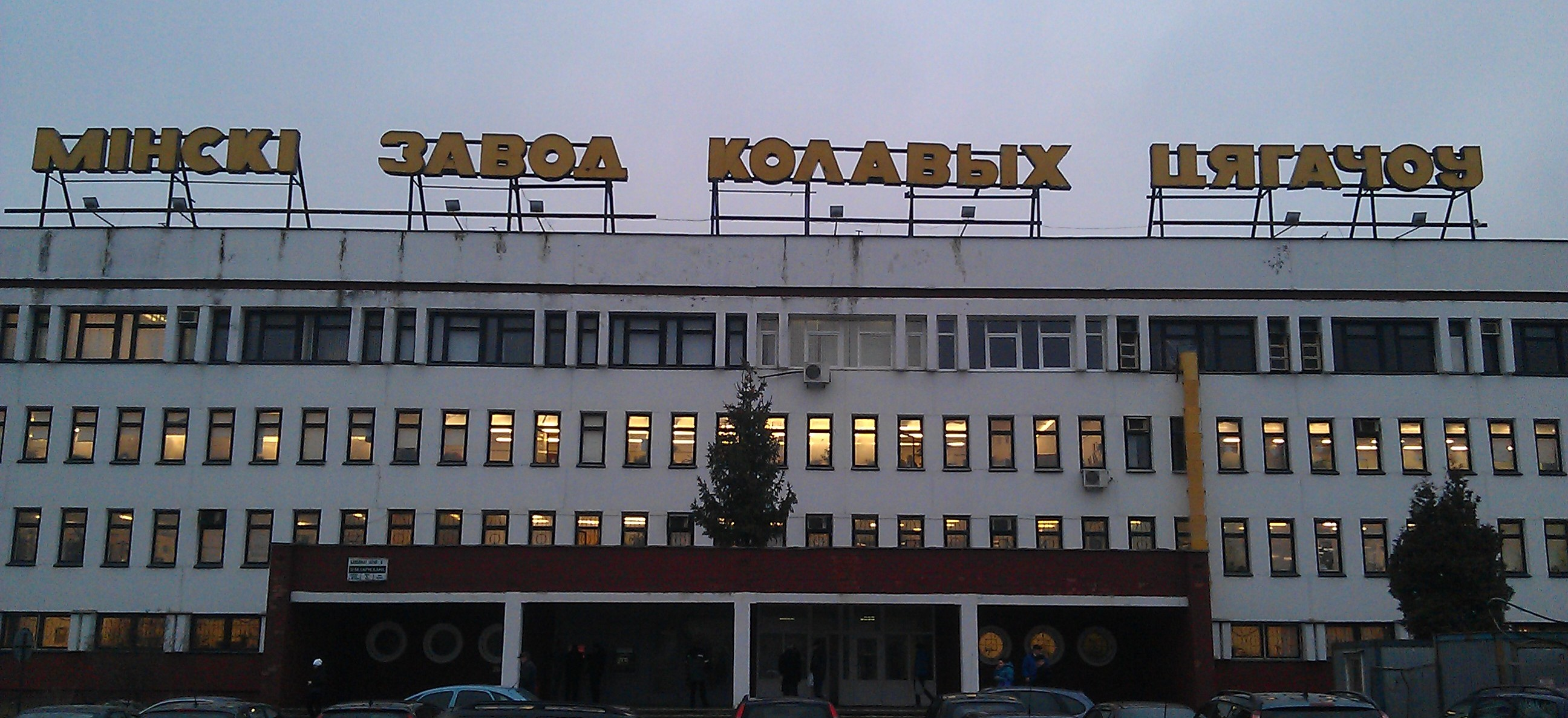 Minsk Wheel Tractor Plant